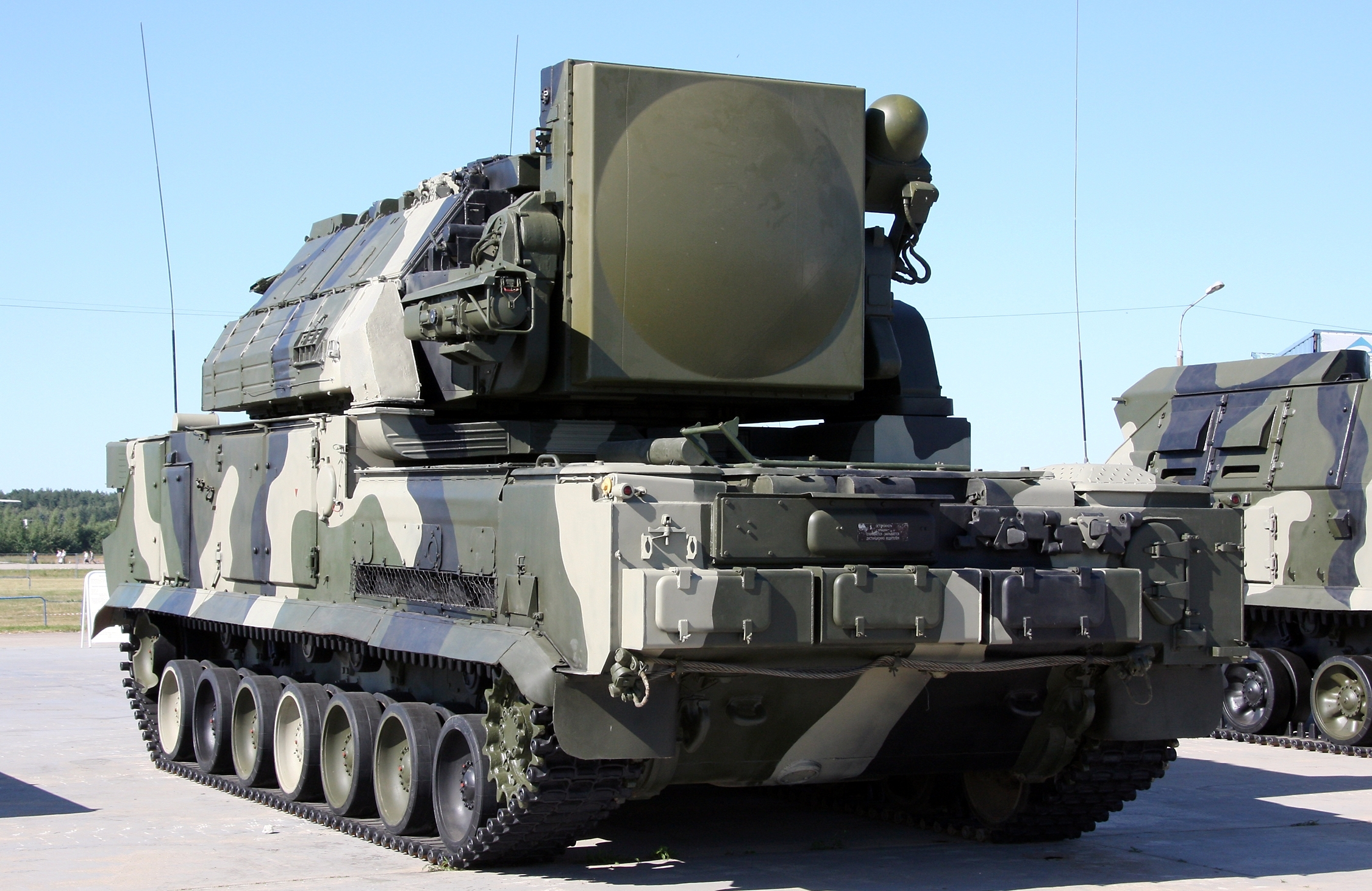 9A330 of the Tor-M1 air defence system.